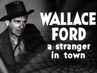 Cropped screenshot of Wallace Ford from the trailer for the film Central Park (1932).